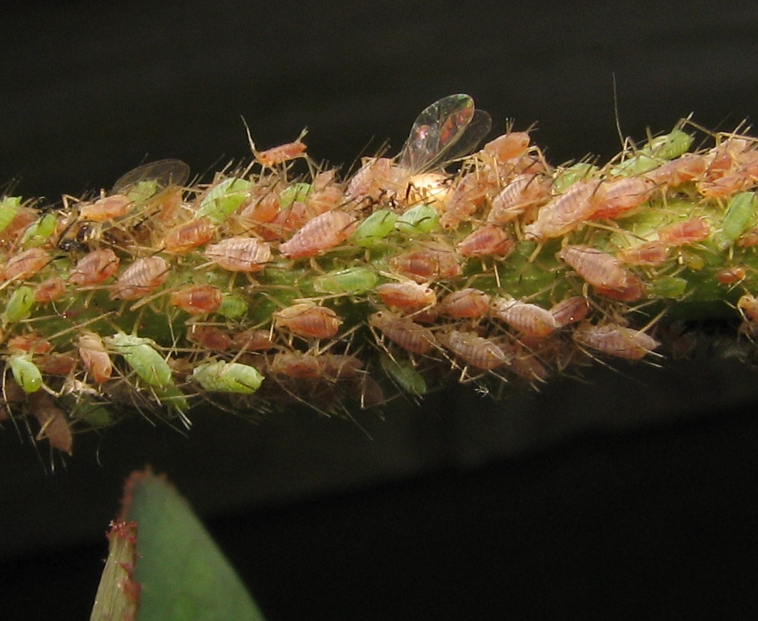 An infestation of Macrosiphum aphids on a rose bush, probably Macrosiphum rosae. Willow Grove, Montgomery County, Pennsylvania, USA.